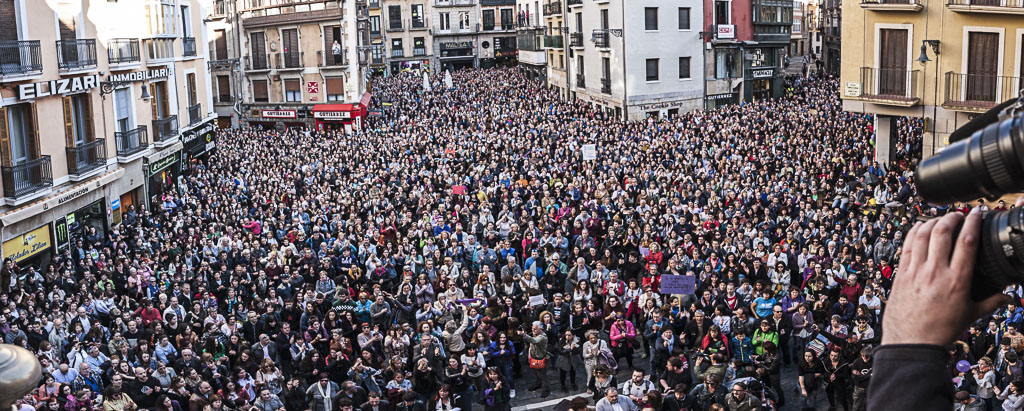 Outcry against the gang rape case sentence in Pamplona